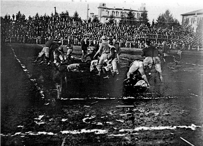 Black and white photo of action during a 1907 University of Oregon football game played at Kincaid Field.